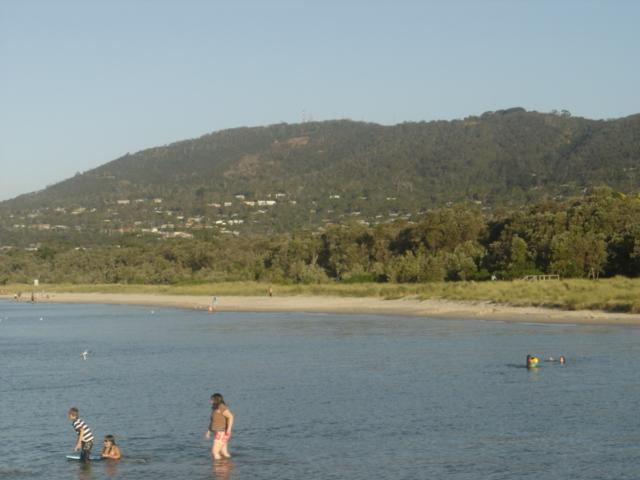 Arthurs Seat, Mornington Peninsula, Victoria.